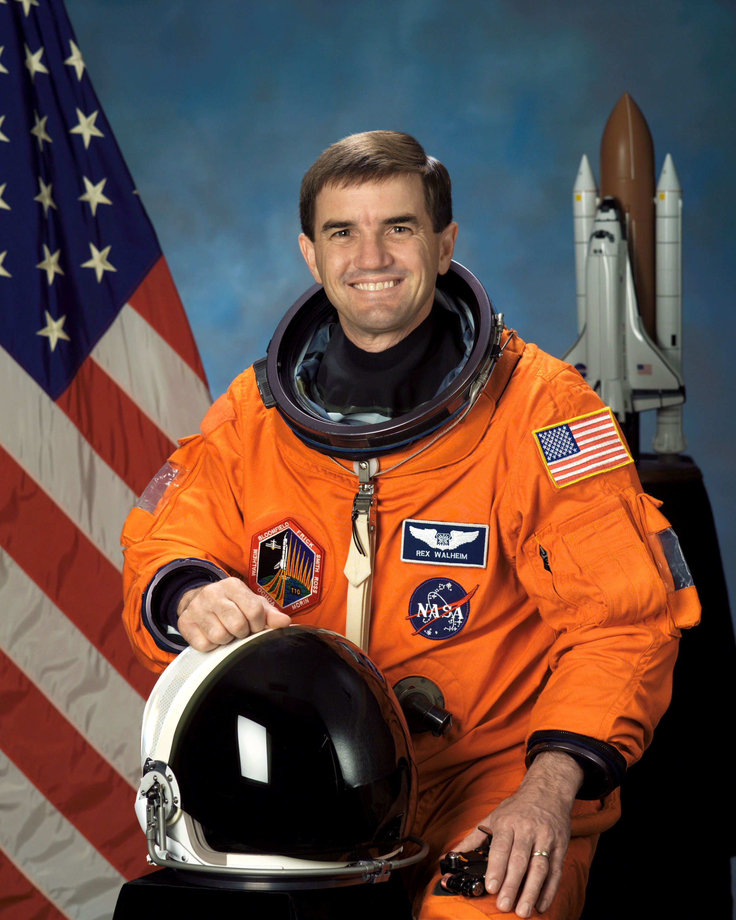 portrait astronaut Rex Walheim